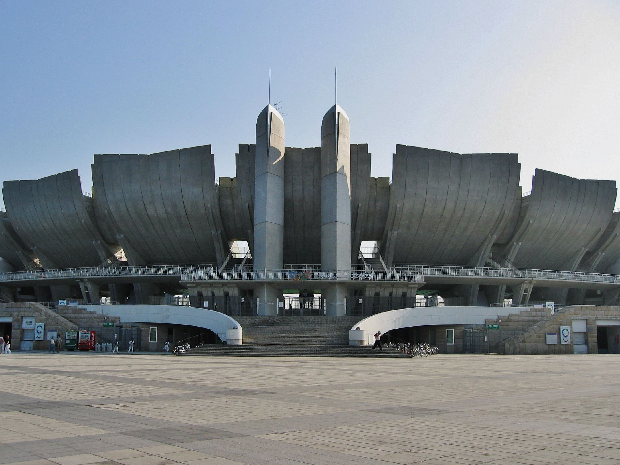 Nagano Olympic Stadium.